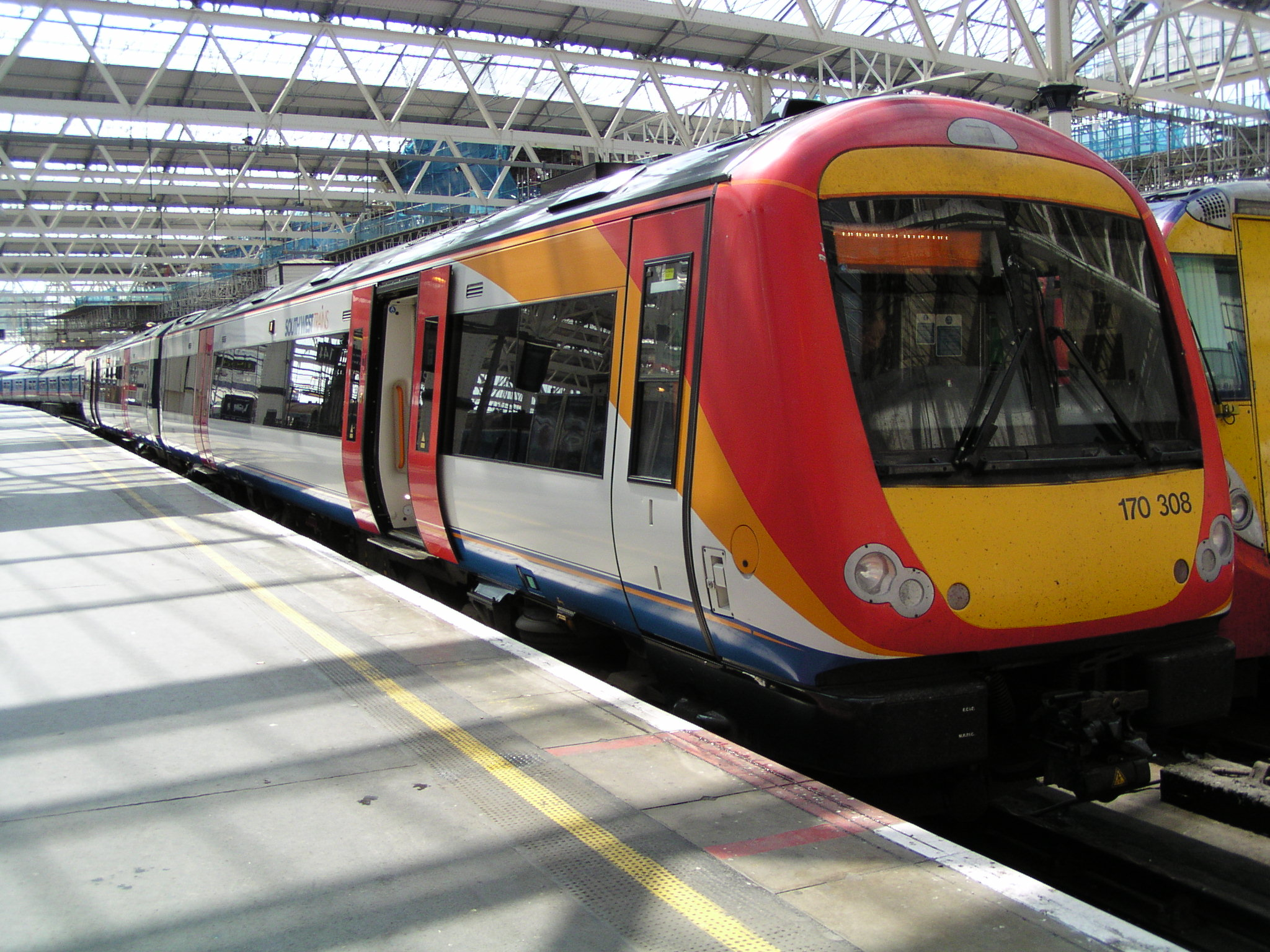 BR Class 170, no. 170308 at London Waterloo